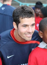 US national team soccer player Benny Feilhaber posing with fans in Pretoria during the 2009 Confederations Cup.